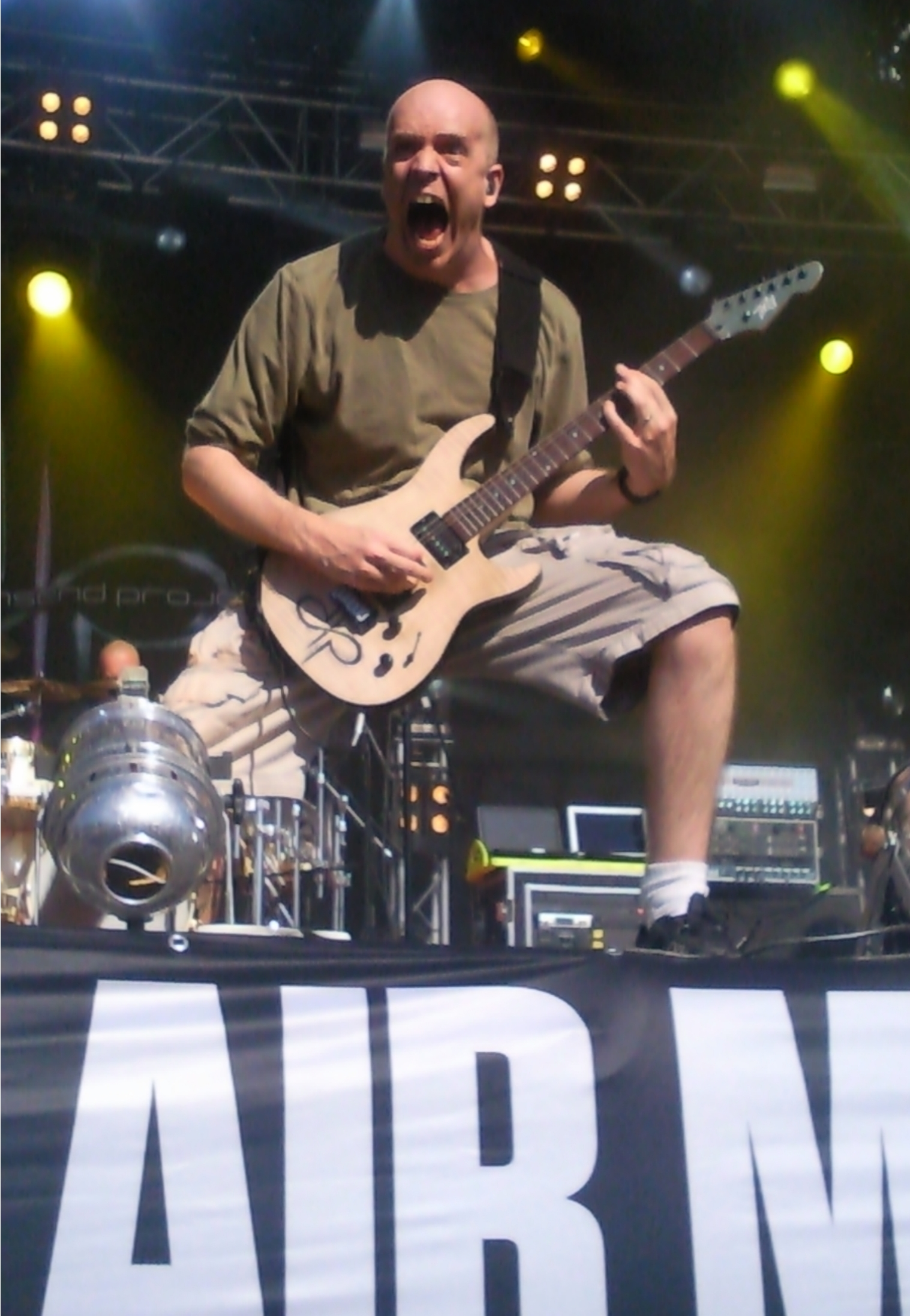 Devin Townsend perfoming at Tuska Metal Fest in Finland 2010